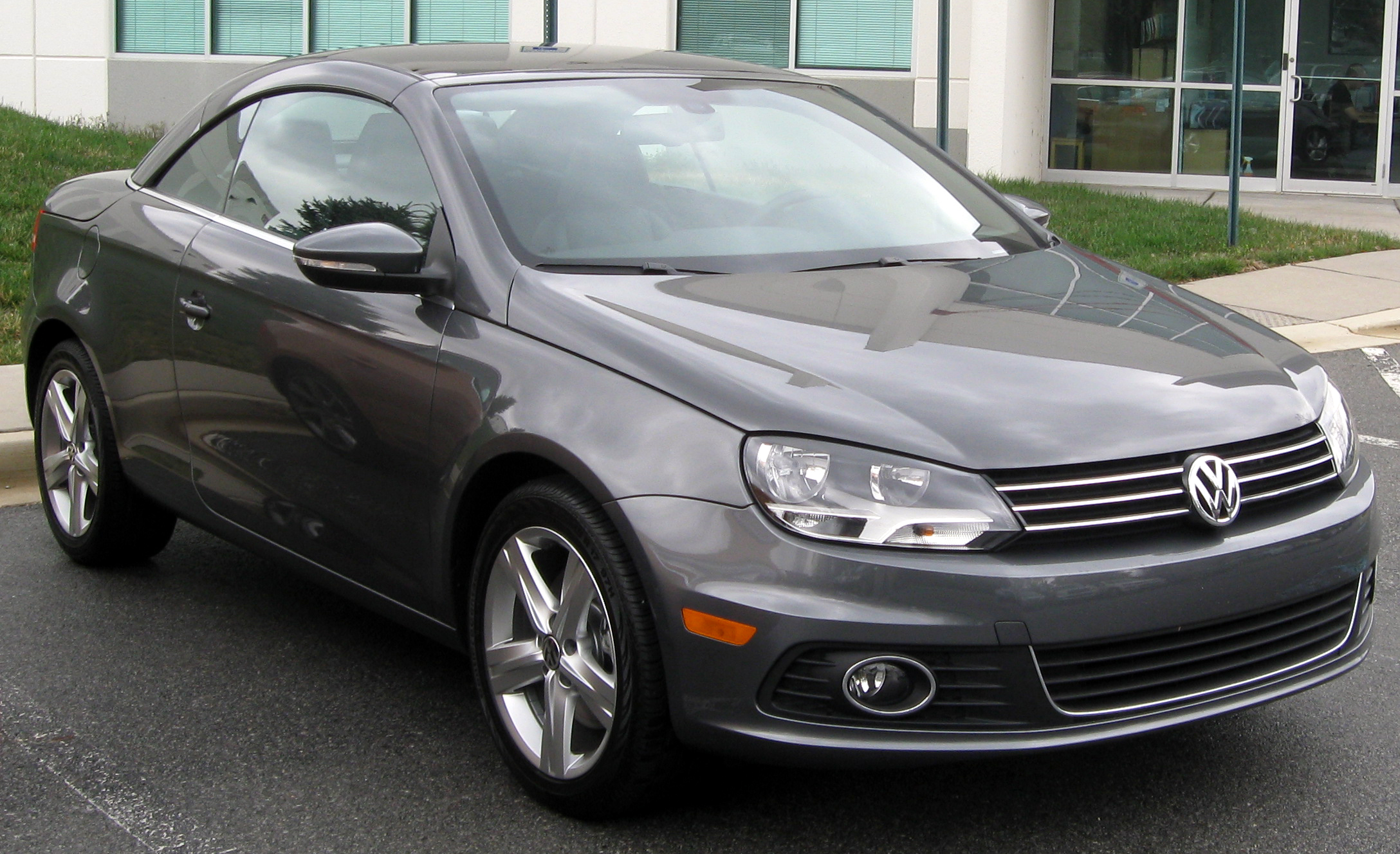 2012 Volkswagen Eos photographed in Upper Marlboro, Maryland, USA.